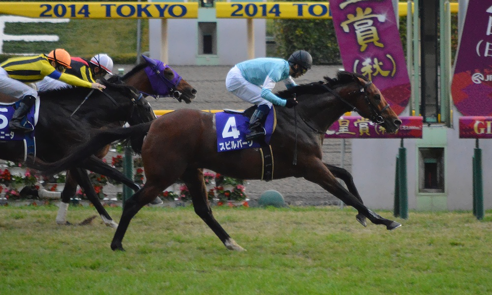 Japanese race horse Spielberg at Tokyo racecourse. Tokyo (JPN) 2 Nov 2014Tenno Sho (Autumn) (Grade 1) (3yo+) (Turf) 1m2f Firm RankHorse NameOddsAgeWgtTrainerJockey1stSpielberg (JPN)10/1H59-2Kazuo FujisawaHiroshi Kitamura2ndGentildonna (JPN)37/10M58-11Sei IshizakaKeita TosakiOthers are omitted. (18 horses entered in a race.)